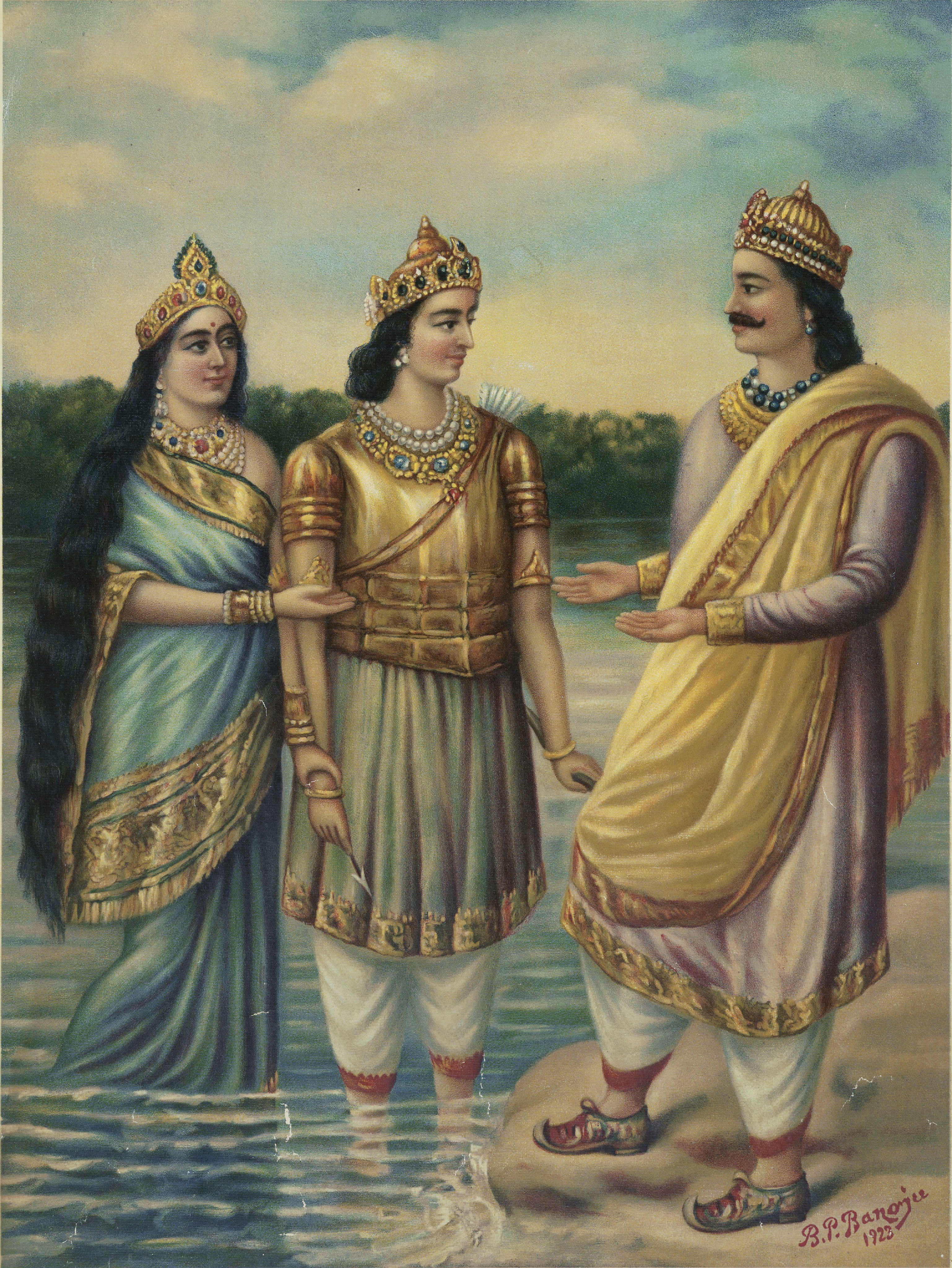 Print from a signed and dated painting by B.P. Banerjee. The scene from the Mahabharata of the presentation by Ganga of her son Devavrata (the future Bhisma) to his father, Santanu. Printing inks on paper. Inscribed.